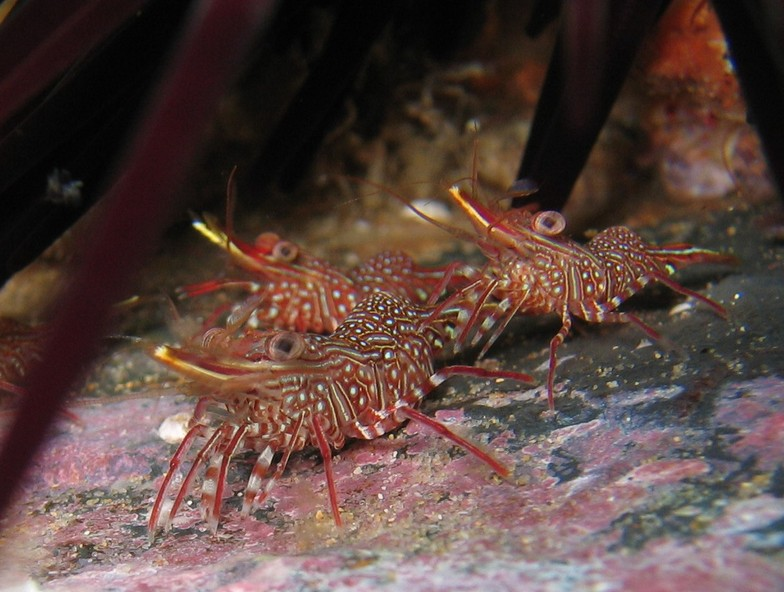 Hingebeak shrimp (Rhynchocinetes sp.) shelter under a sea urchin. Green Island, South West Rocks, NSW